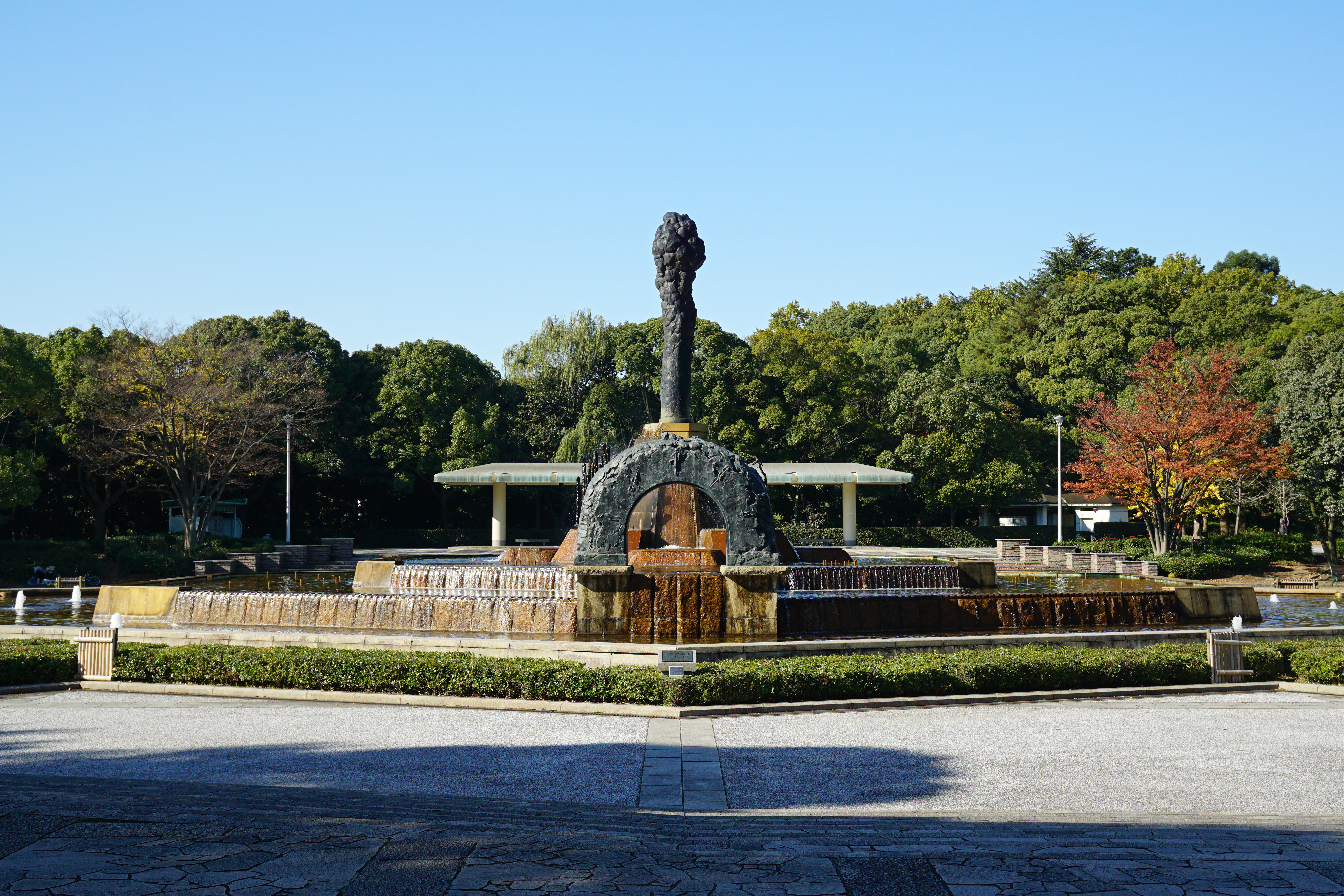 Hattori Ryokuchi in Osaka prefecture, Japan